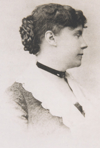 Constance Fenimore Woolson headshot